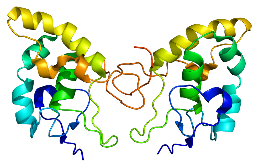 Structure of the FZD8 protein. Based on PyMOL rendering of PDB 1ijy.